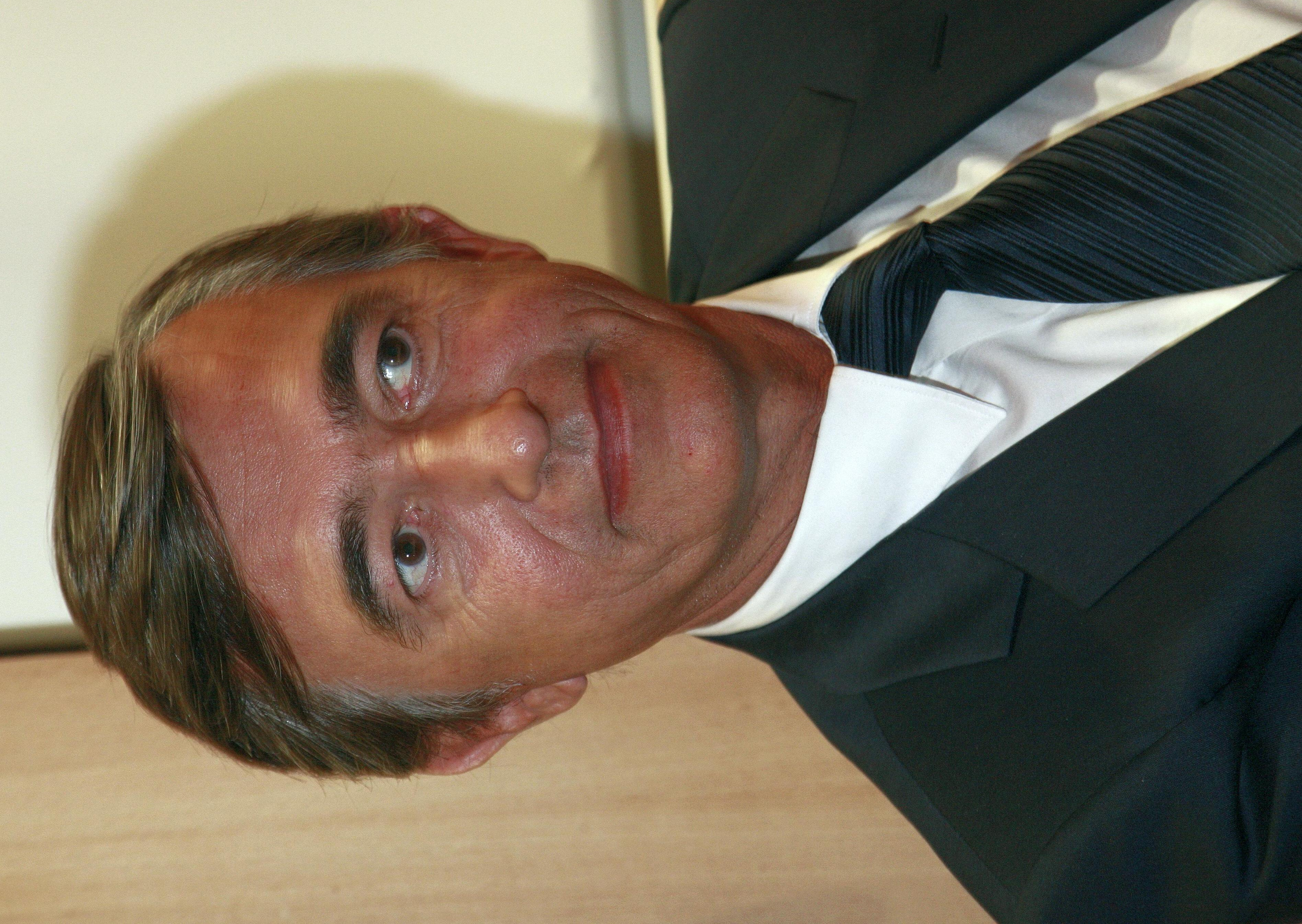 Philippe Douste-Blazy, French politician, at the université d'été du MEDEF in 2008.